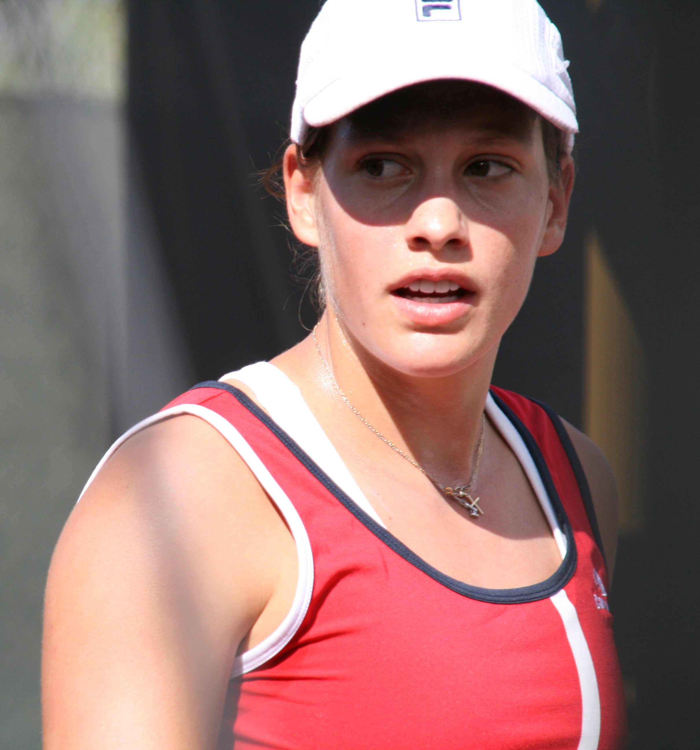 Stephanie Dubois playing in the Coleman Vision Tennis Championships in Albuquerque, New Mexico, 2007.